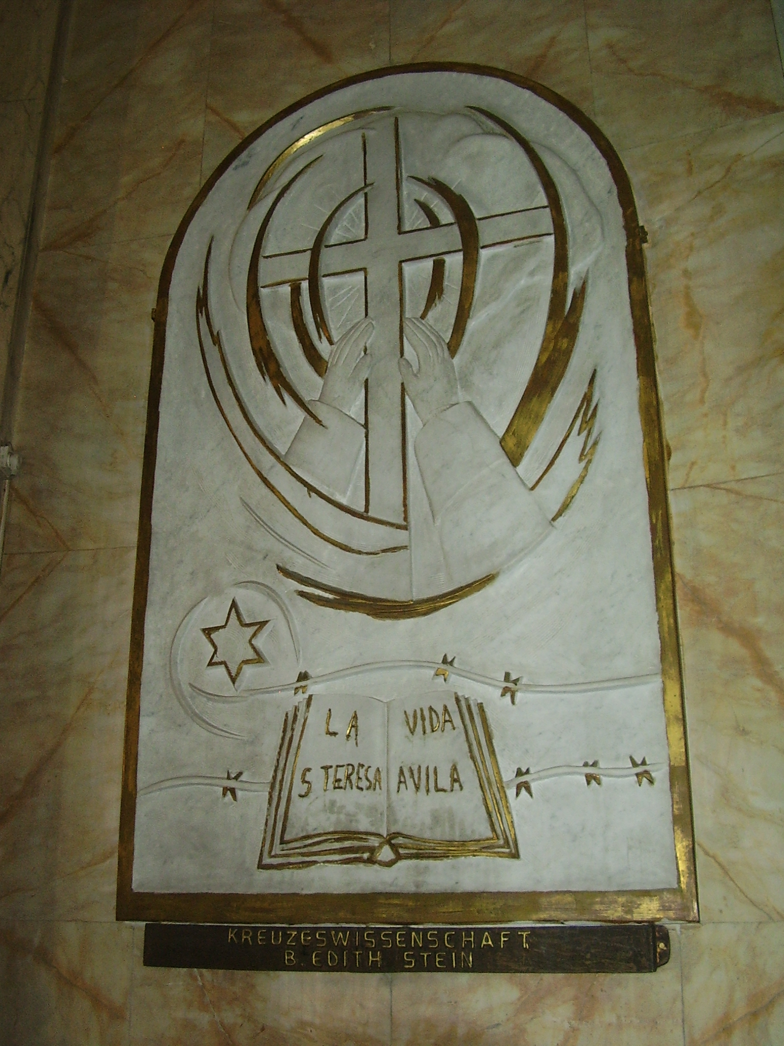 Memorial to Saint Edith Stein in Stella Maris church, Haifa